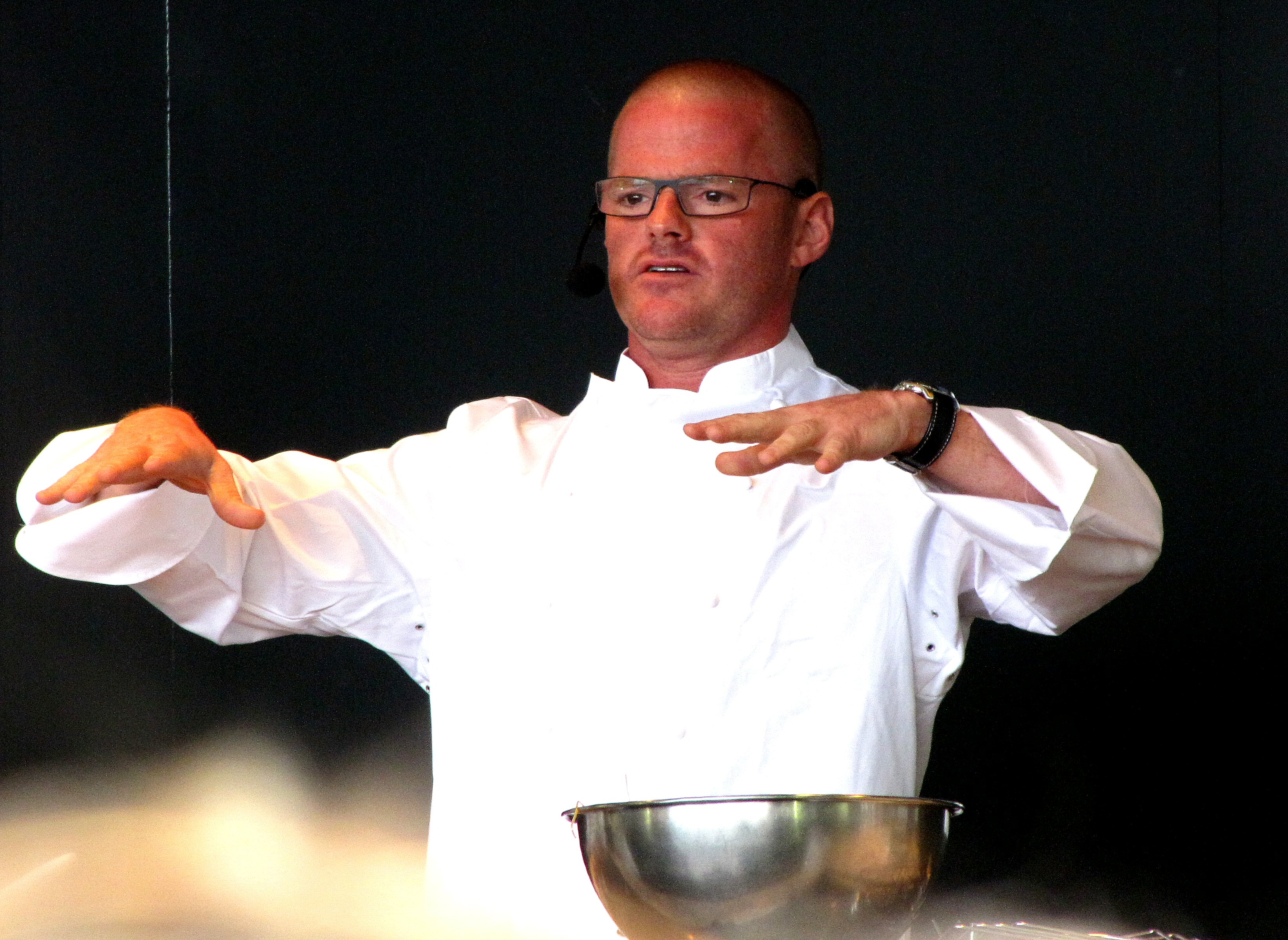 Heston Blumenthal at Taste Of London Festival, June 2010.